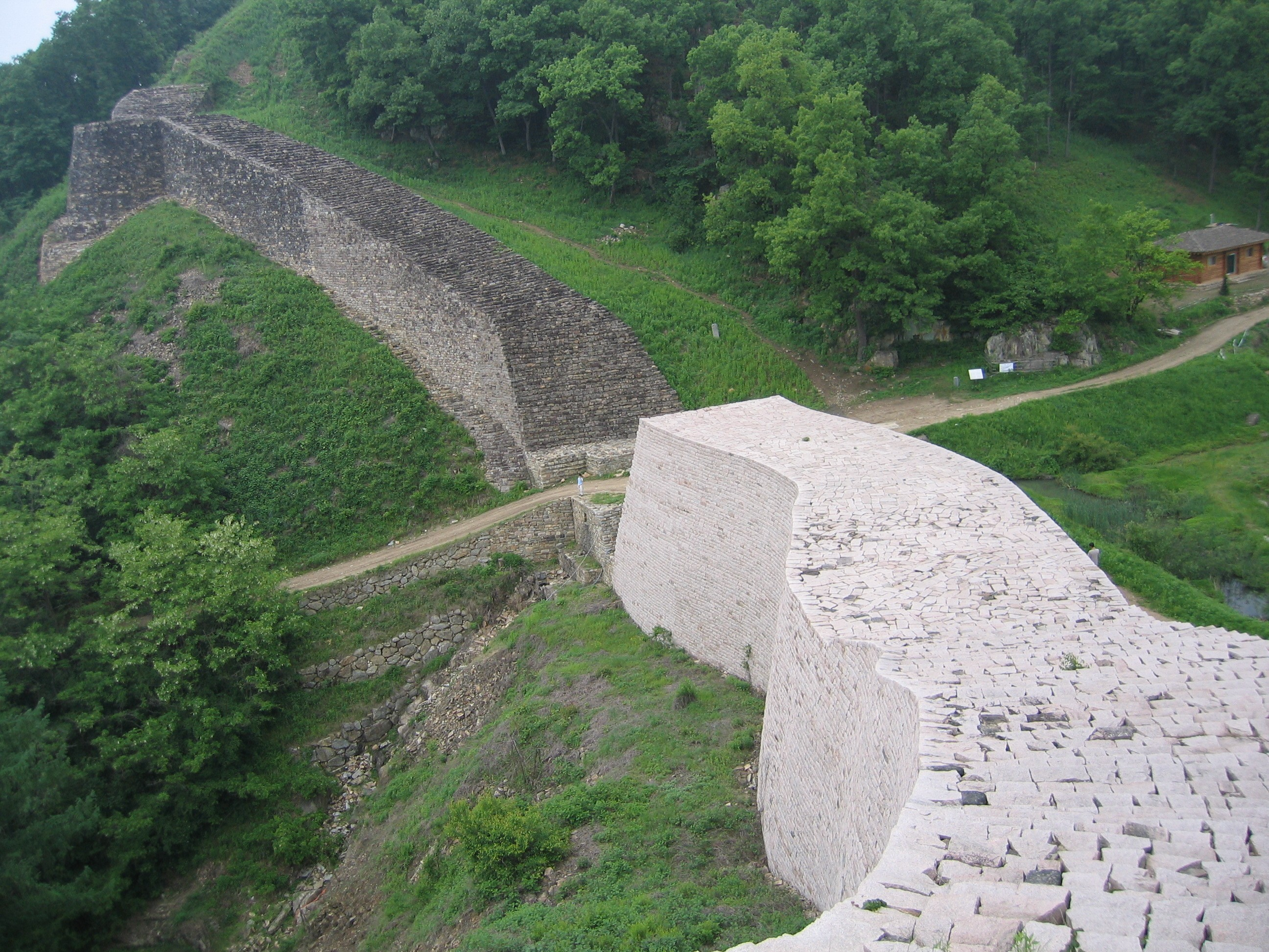 View of the (largely reconstructed) outer wall of the Samnyeon sanseong.